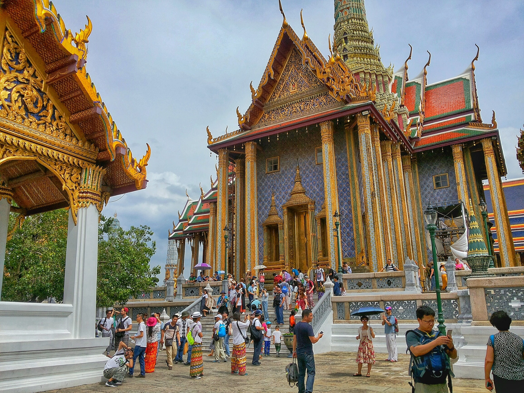 500px provided description: Noon in Bangkok. Taken from Grand Palace and this place was so crowded with visitors. High temptation for photograpers around the world. [#travel ,#thailand ,#bangkok ,#grandpalace ,#explorebangkok]